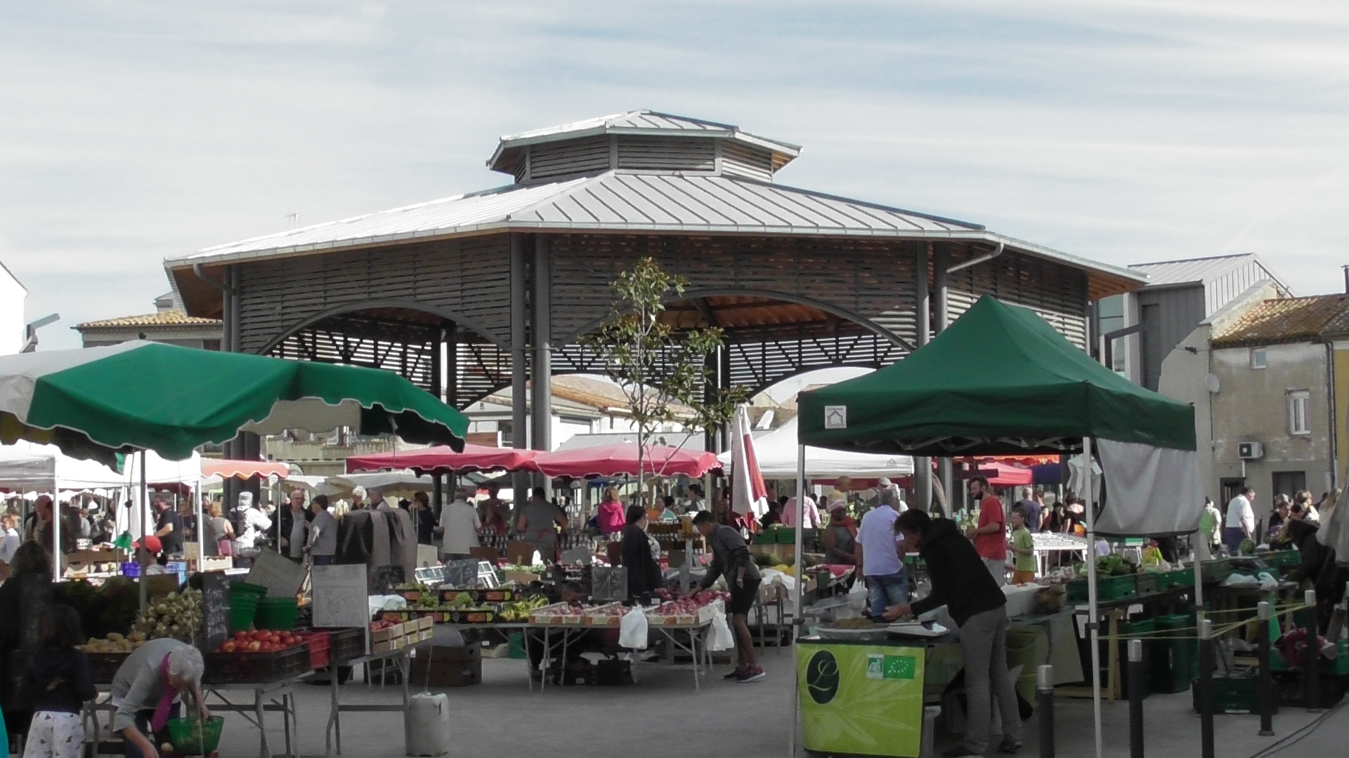 The Lézignan-Corbières market in Cabrié Square